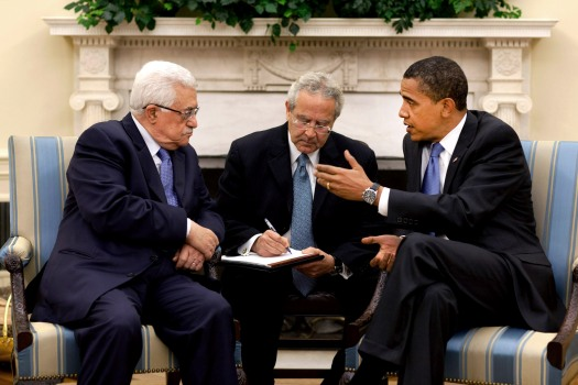 President Barack Obama meets with Palestinian Authority President Mahmoud Abbas in the Oval Office Thursday, May 28, 2009. The man sitting between them is an interpreter.